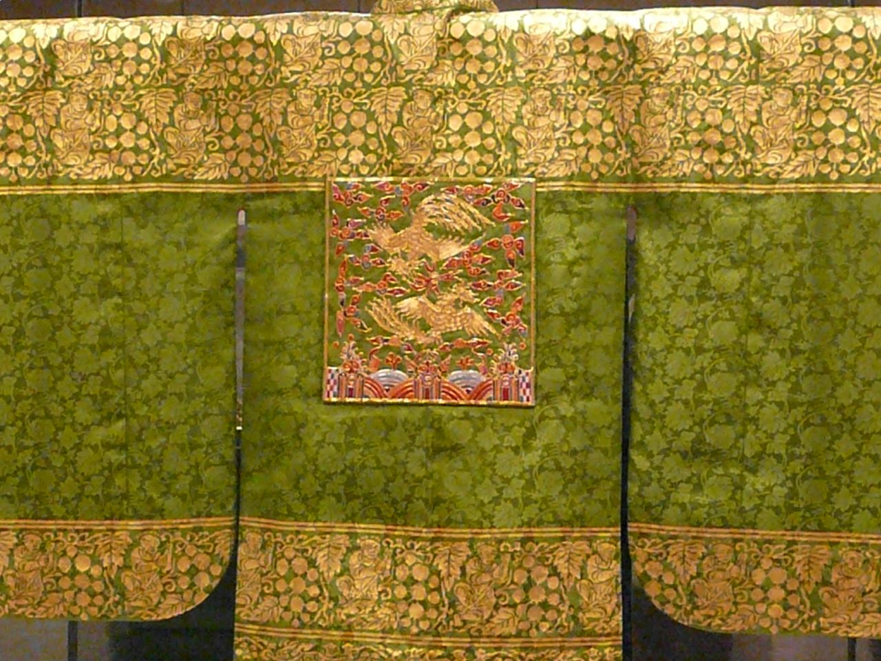 Korean royal costume for princess.